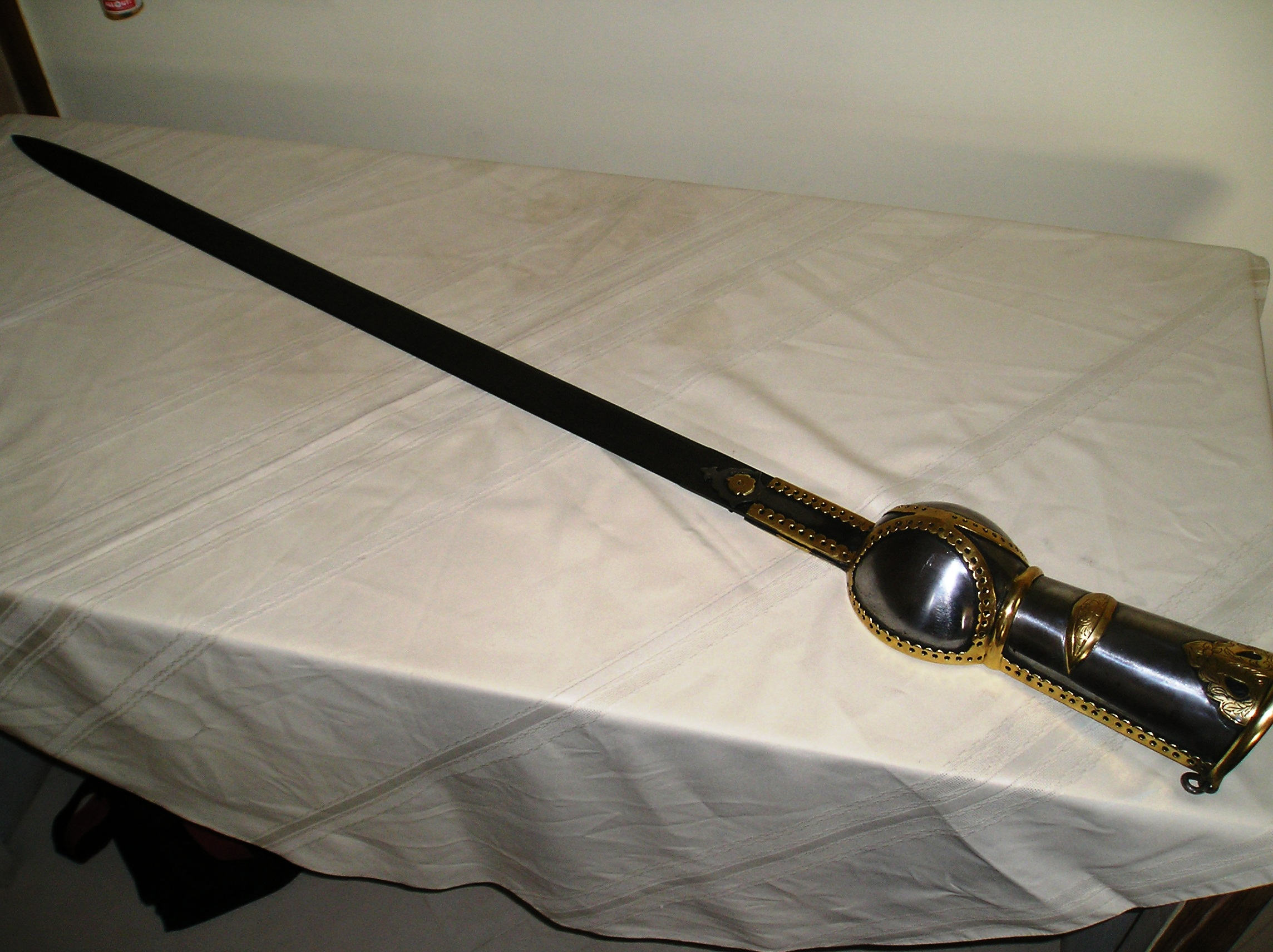 The Full length View of the pata. 51 inch with handle.